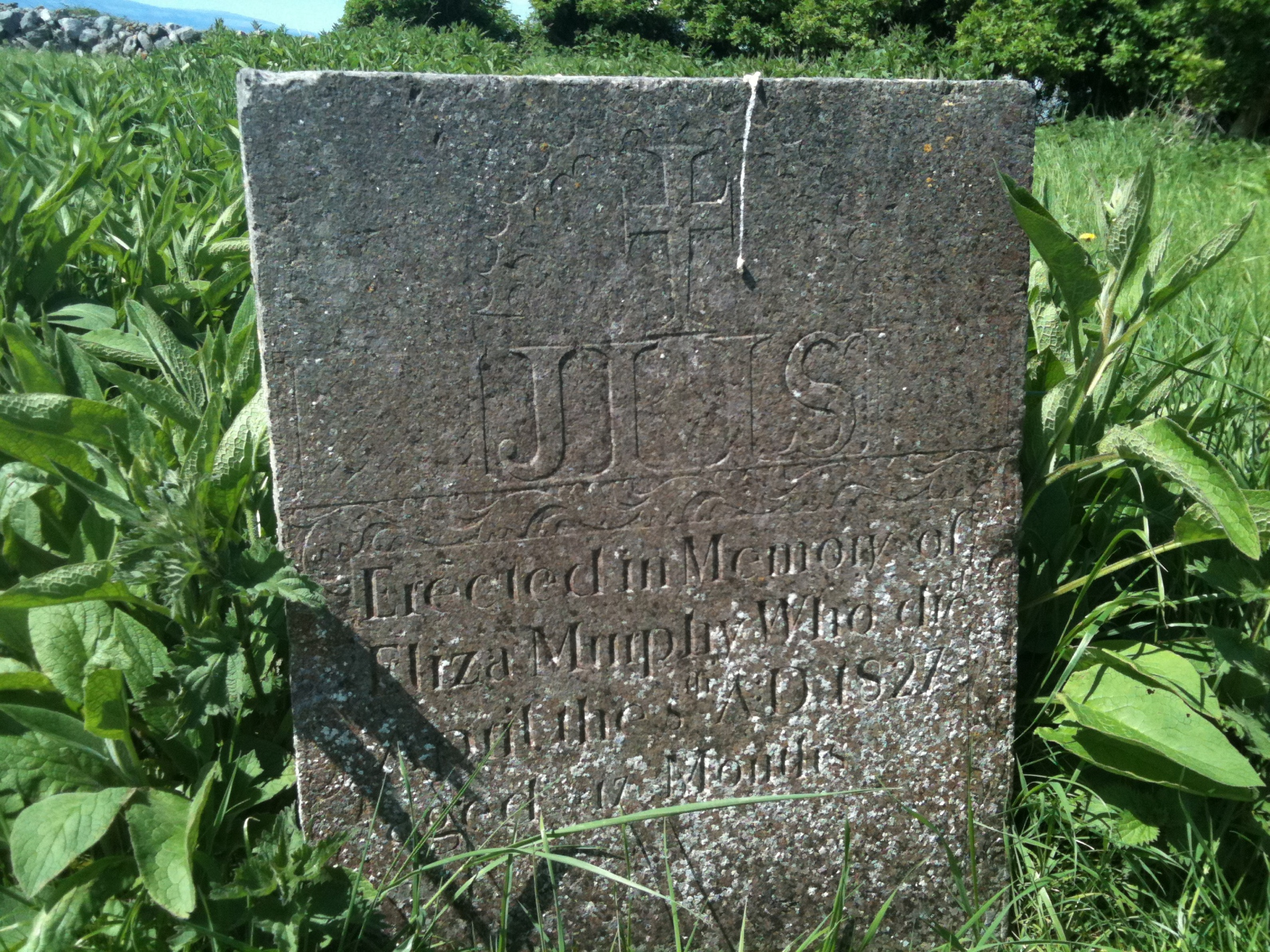 The headstone of Eliza Murphy, Island Eddy. Galway Bay, Ireland. The inscription reads: 'Erected in Memory of Eliza Murphy Who died April the 8th AD 1827 aged 17 Months'. Note the profusion of Comfrey surrounding the headstone.